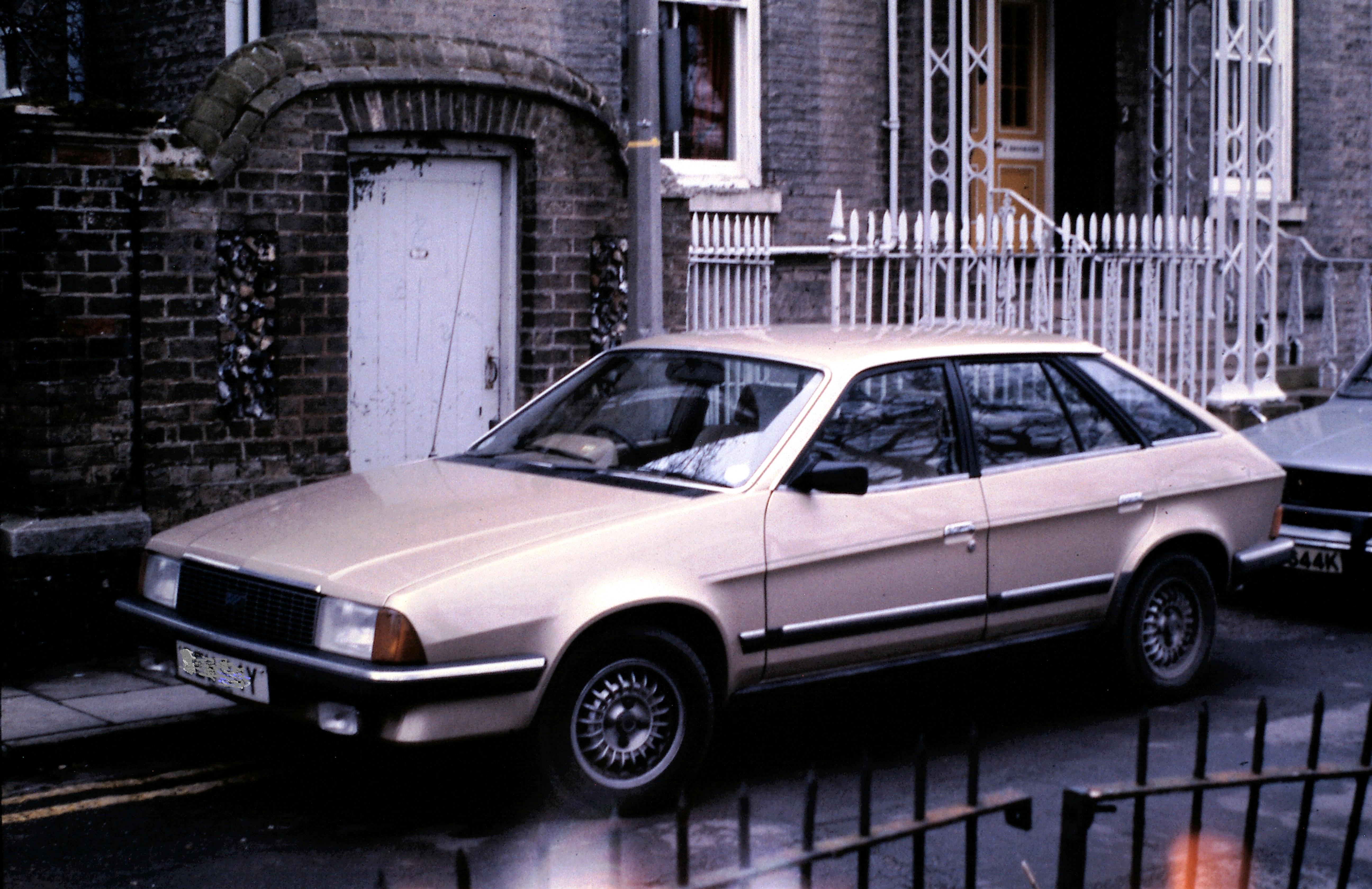 Austin Ambassador on a rainy day in Cambridge